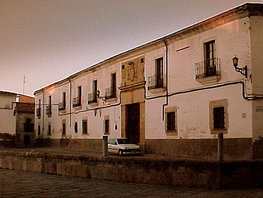 Bishop palace and residence at Coria